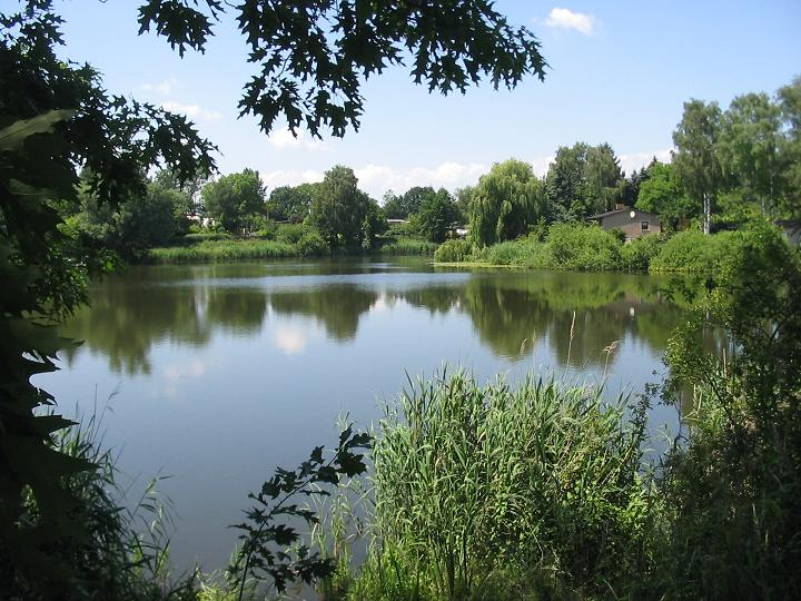 Retsee (lake) in Hönow. The village Hönow is situated in the landscape Barnim and a part of the municipality Hoppegarten in the district Märkisch-Oderland, state Brandenburg, Germany.